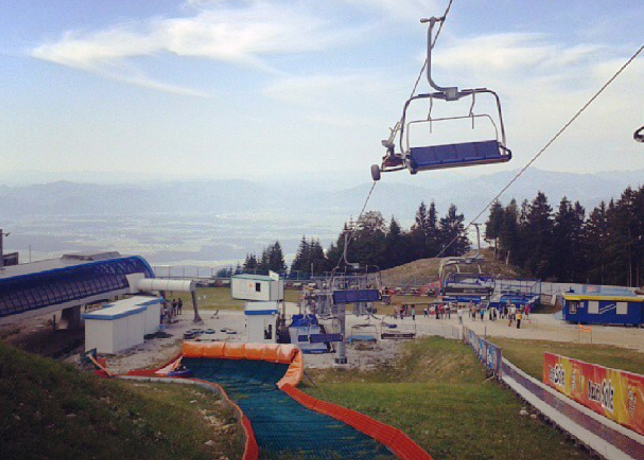 Adventure Park takes place in Krvavec.